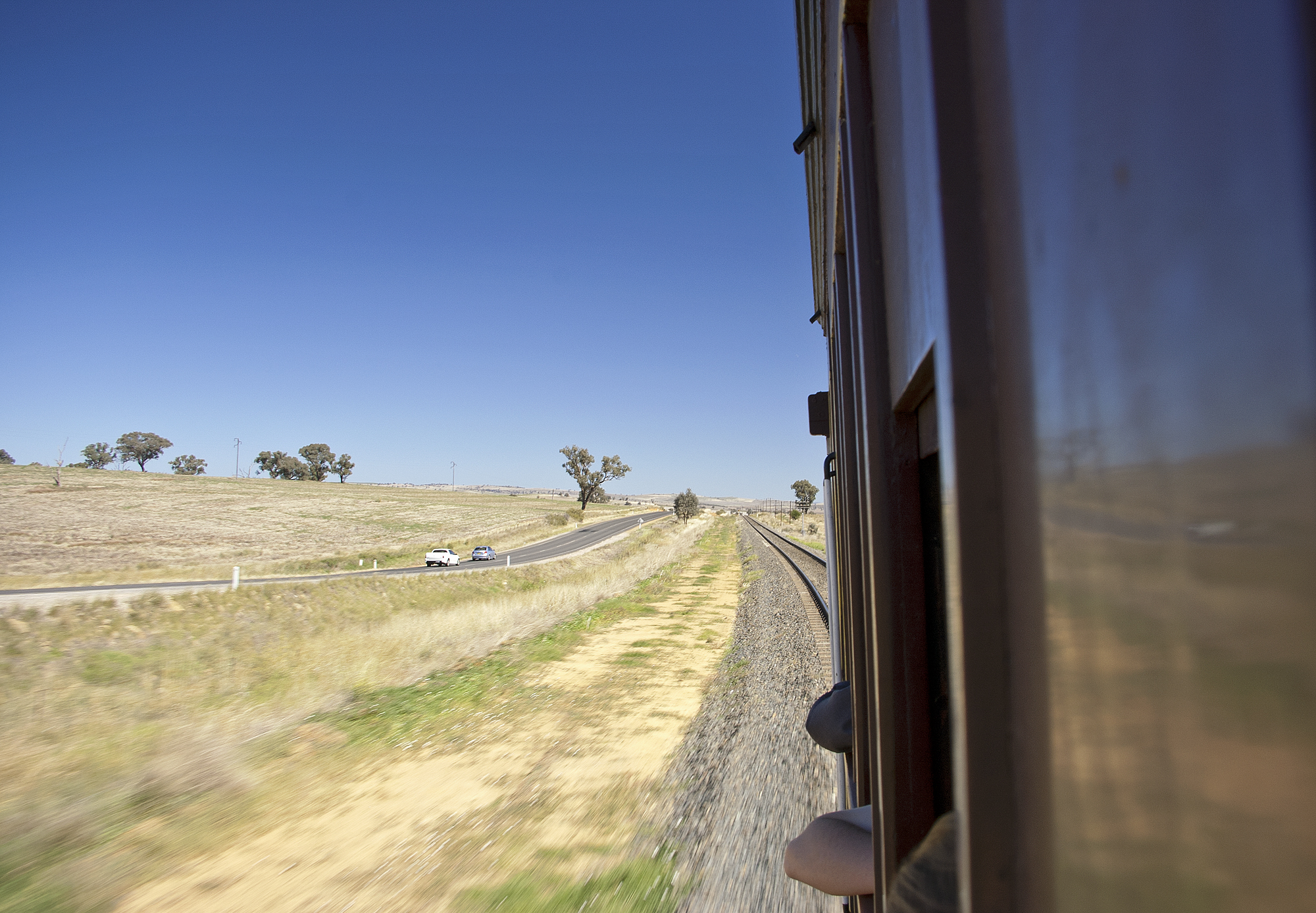 Riding in CPH 24 on the Main Southern railway line outskirts of Junee.